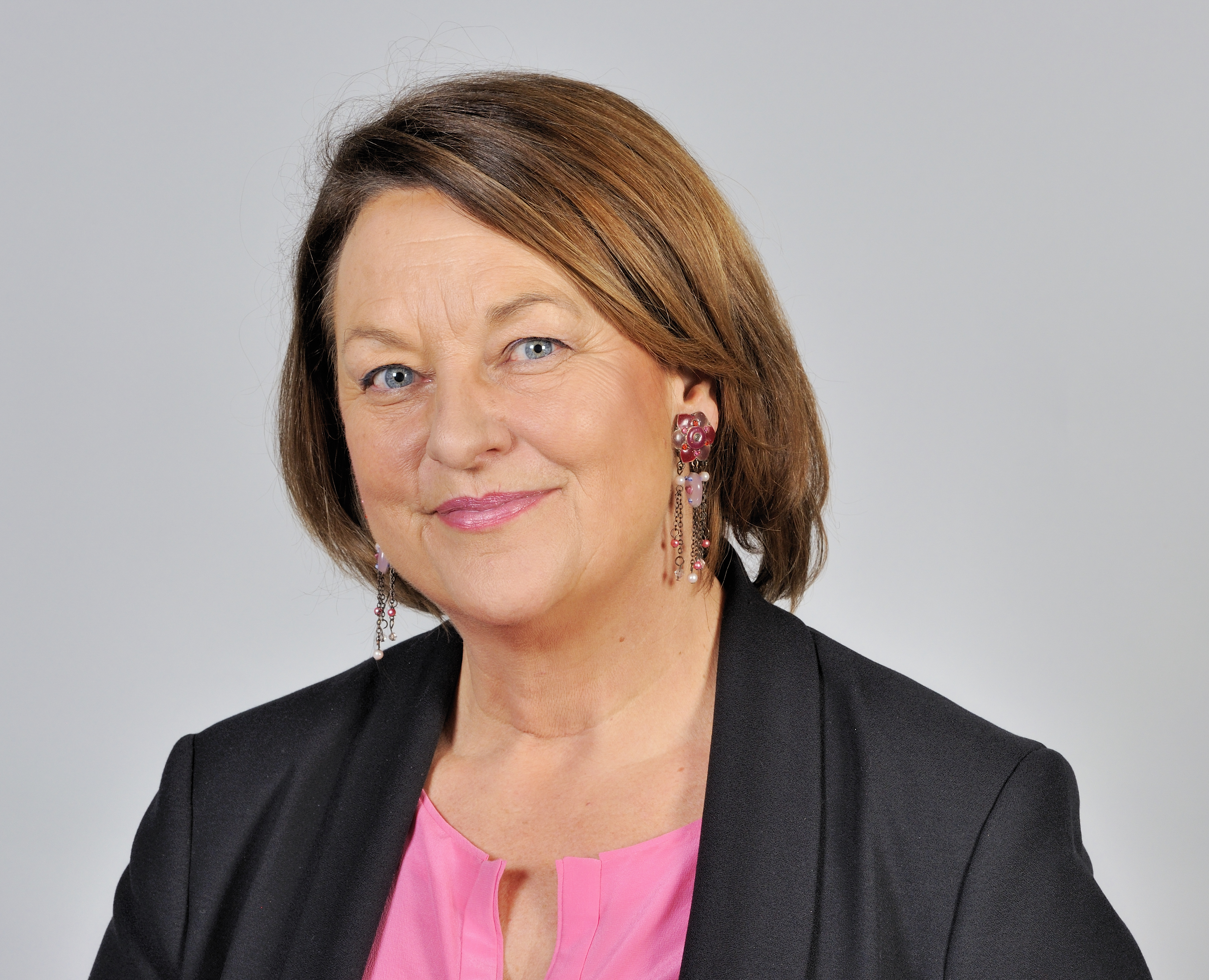 Nathalie Griesbeck, French politician and member of the European Parliament (as of 2014).